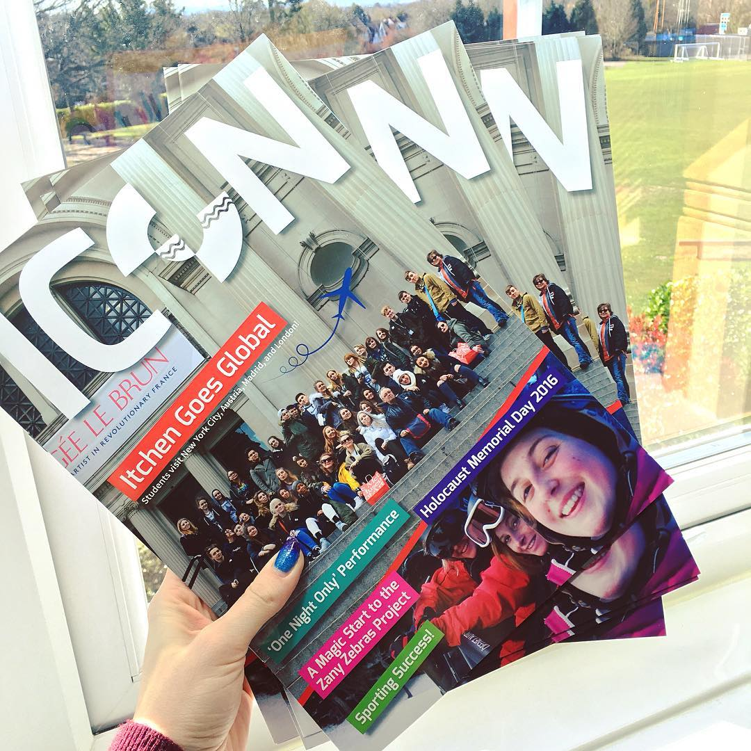 An issue of Itchen College's ICoN Magazine